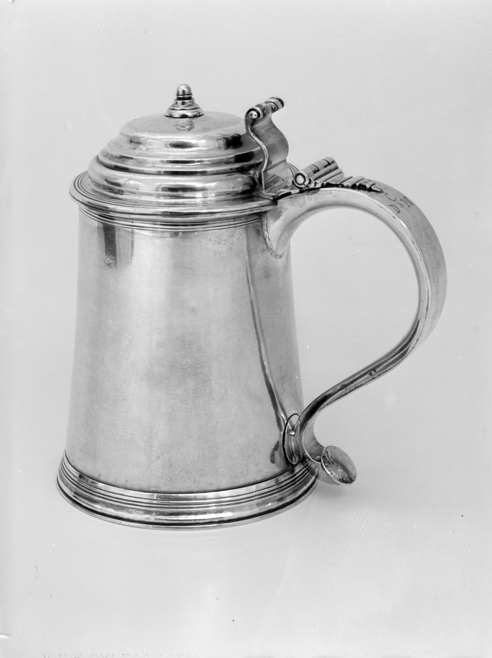 American; Tankard; Silver